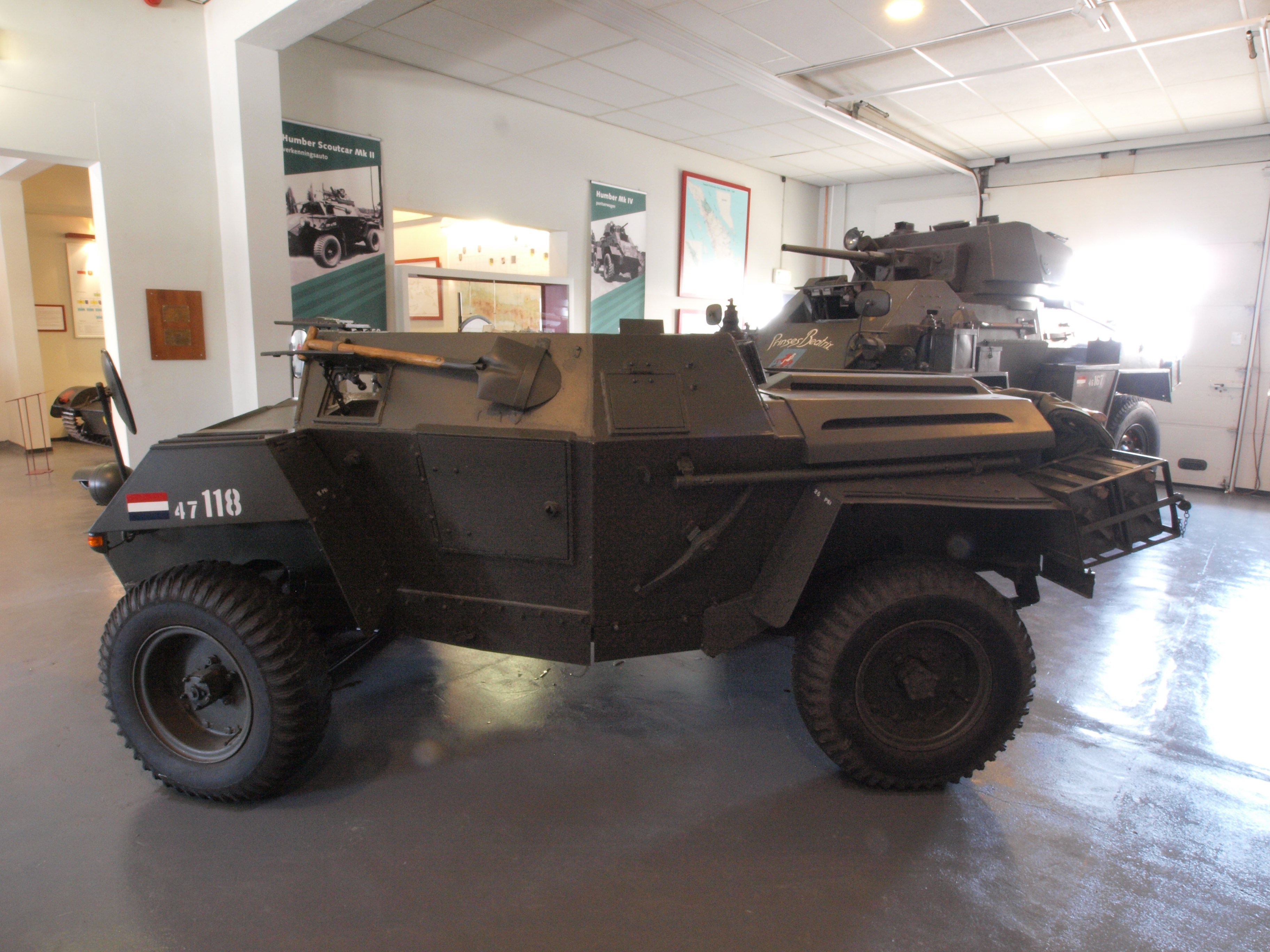 Humber Scout Car Mk I